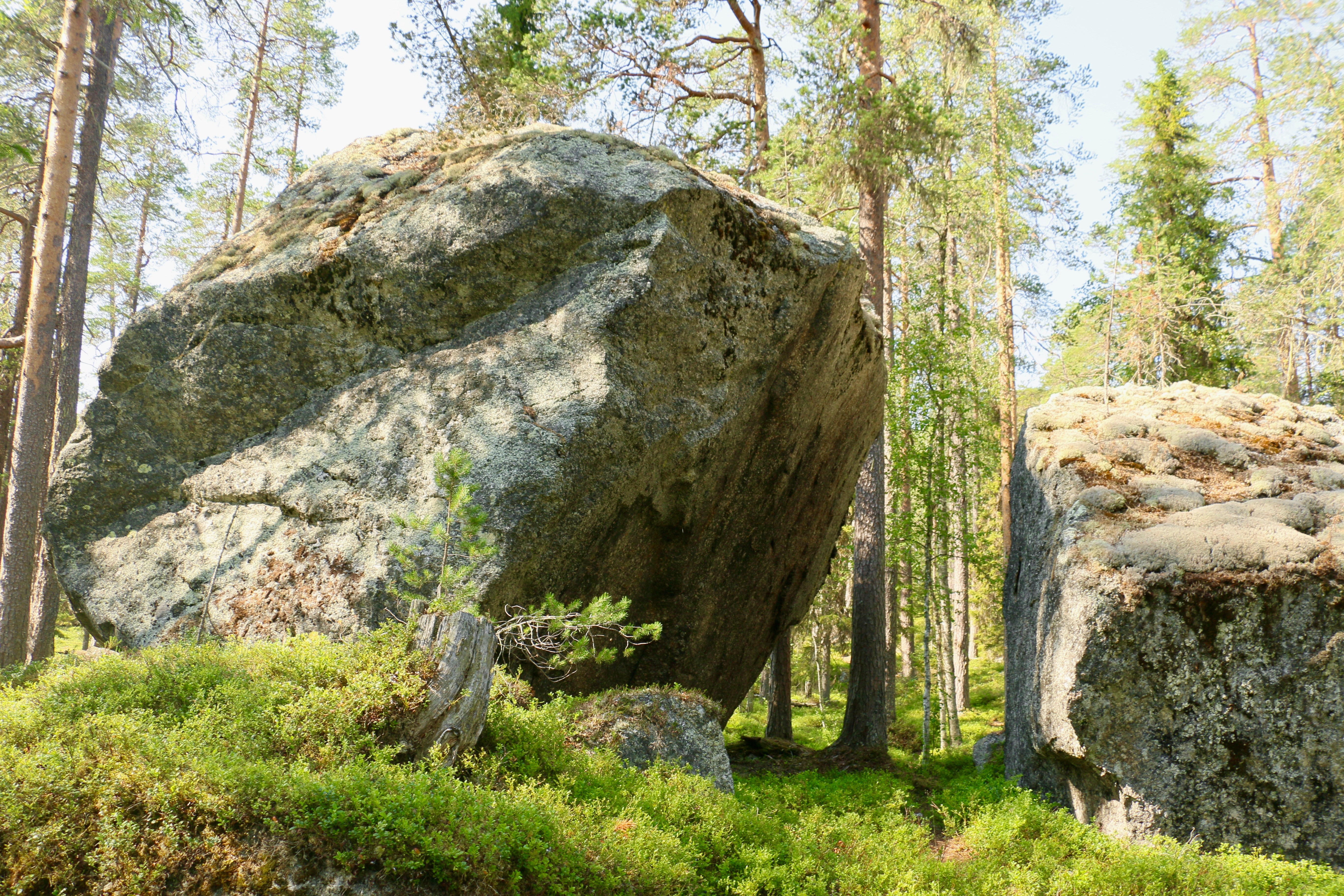 Large boulders Björnlandet national park